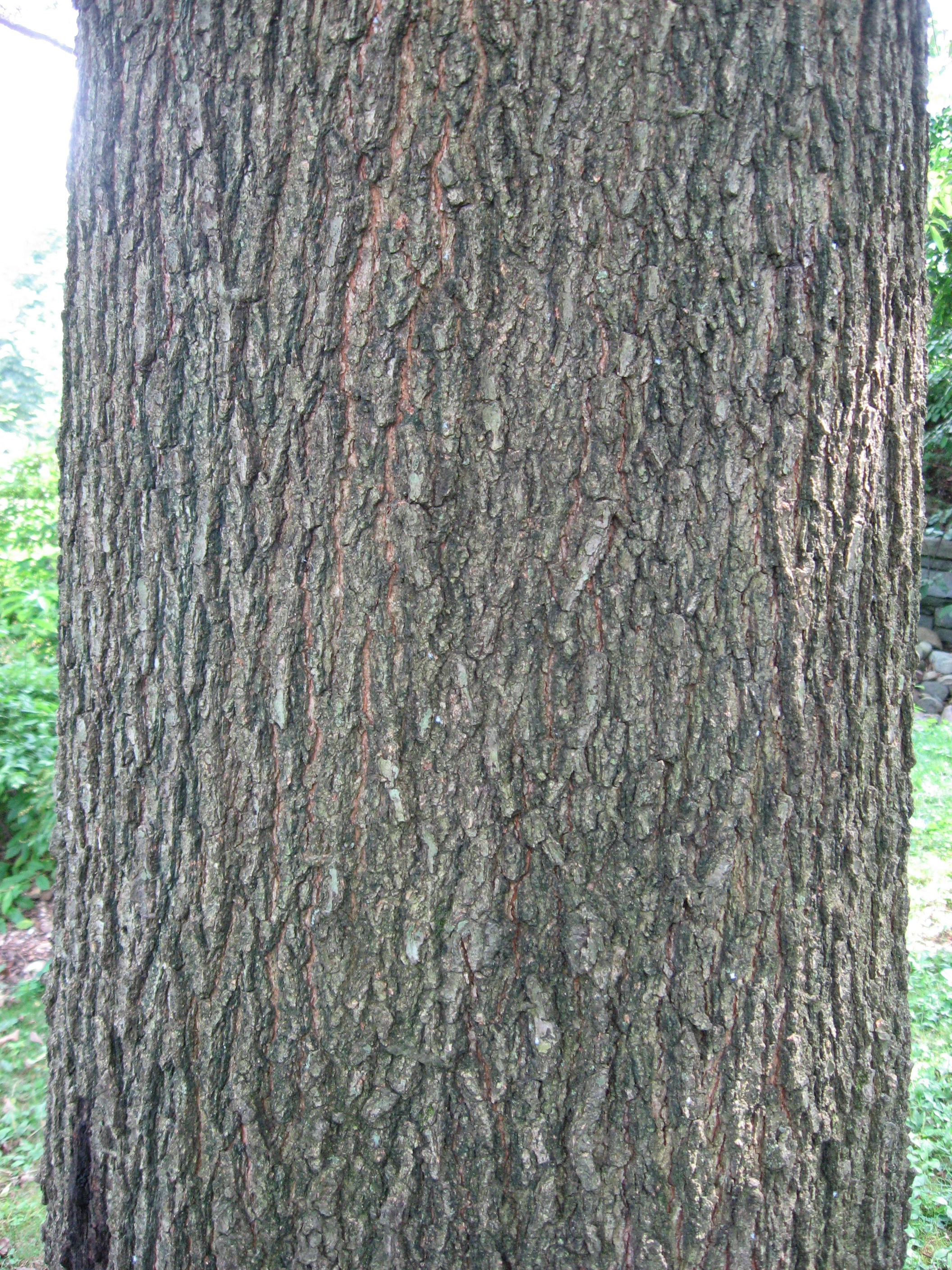 A picture of the trunk of Quercus imbricaria.